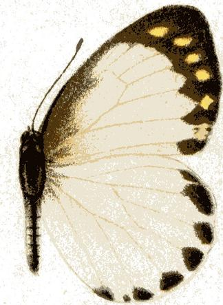 SeitzFaunaAfricanaXIII Appias phaola (Doubleday, 1847)